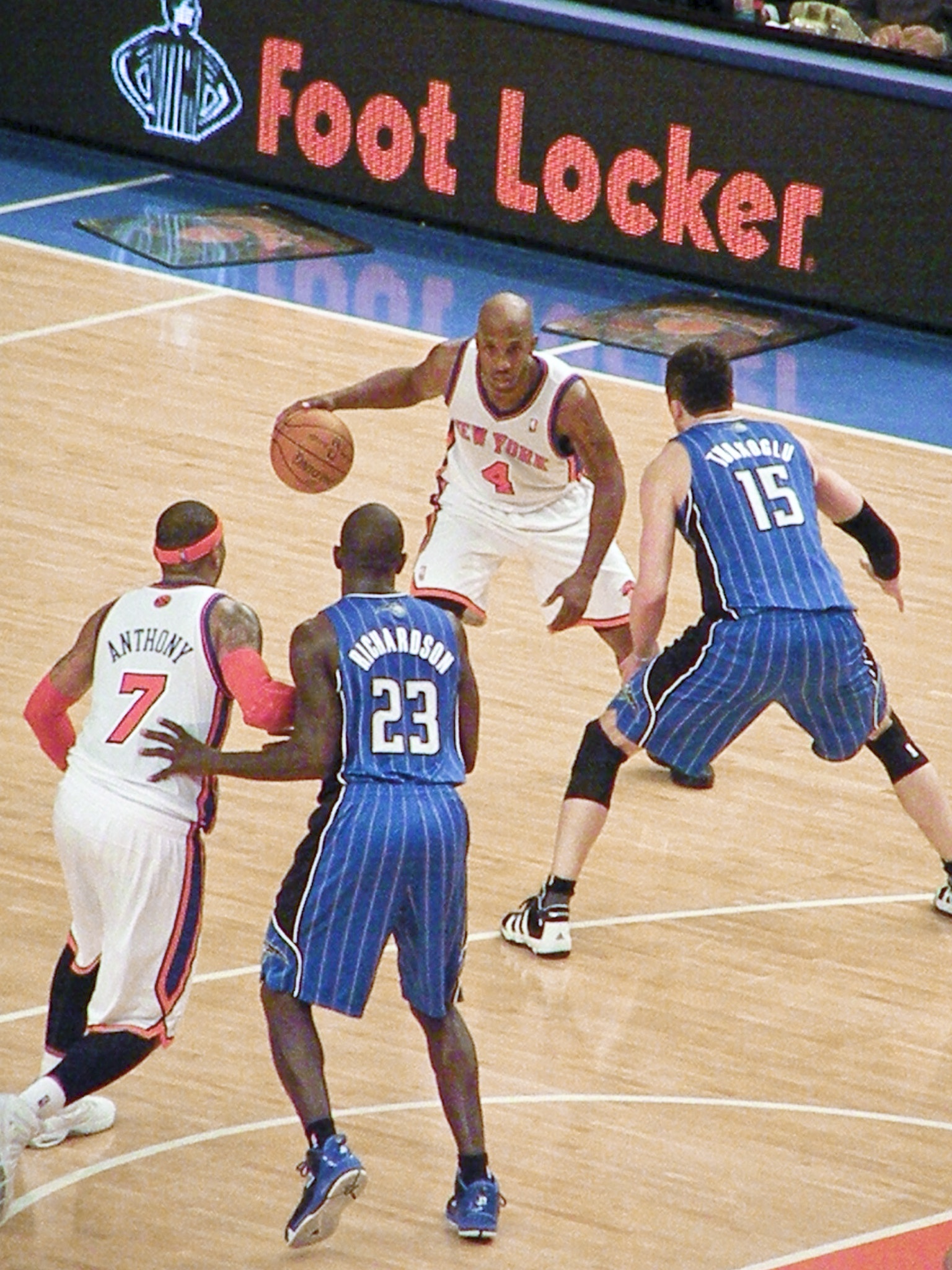 This photo was taken on March 28, 2011